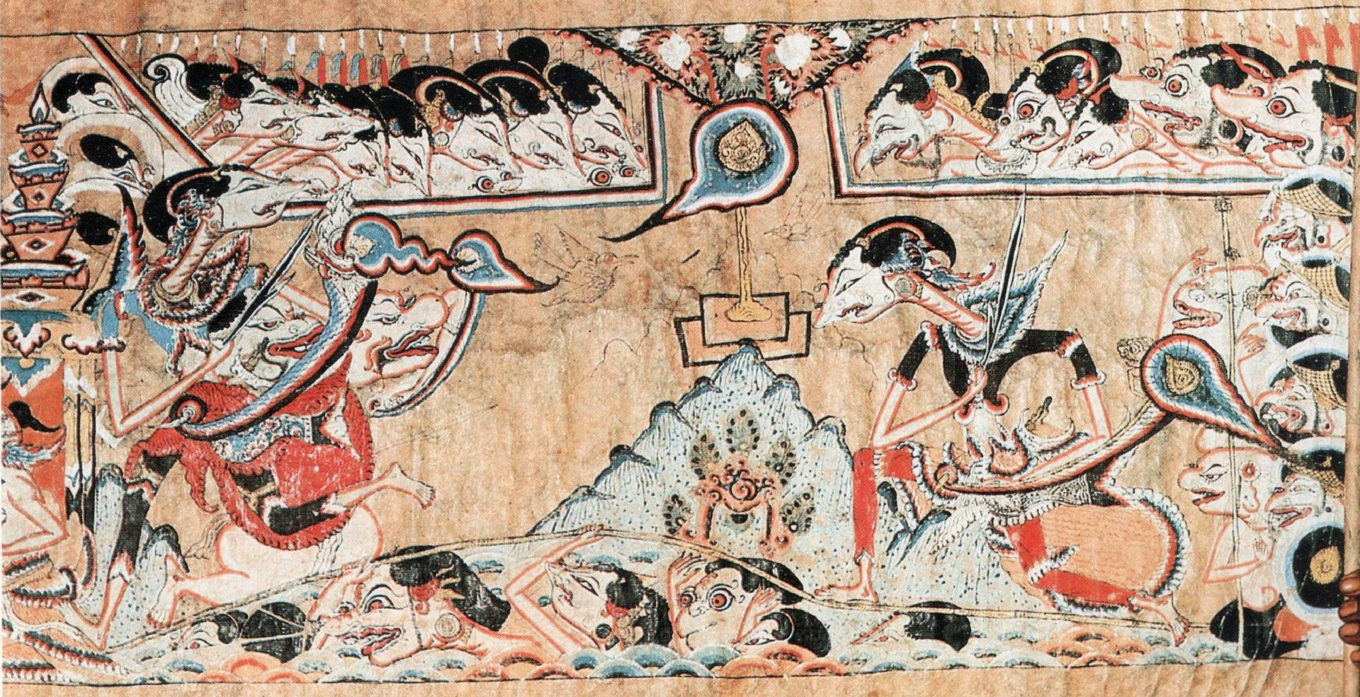 Wayang beber Gelaran, picture roll 6, scene 4. Competition between Panji Sepuh (left) and Jaya Puspita (right)